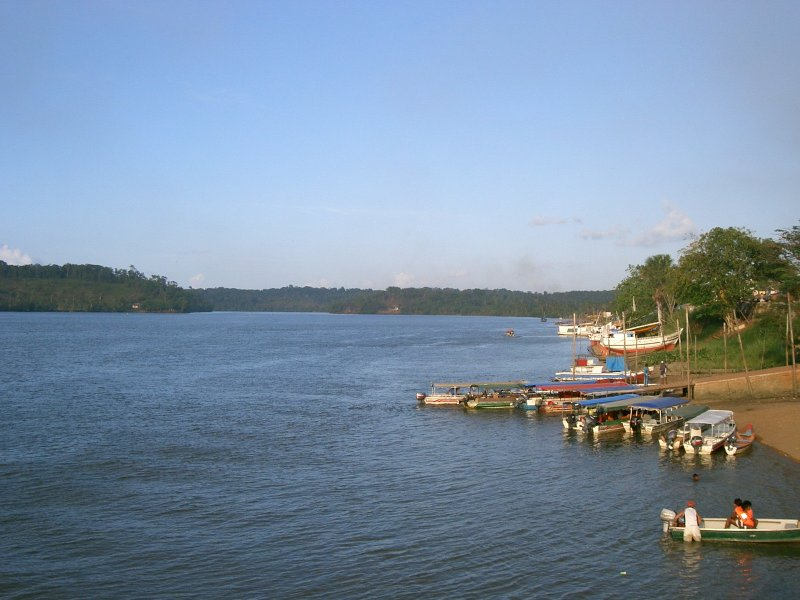 River Oyapock, view from brasil to french guyana, near the village St. George de l'Oyapoque